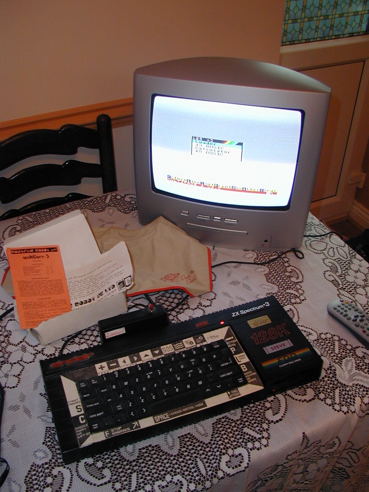 Sinclair Spectrum +3 computer with multiface 3 peripheral attached. Connected to TV and showing boot up screen. Keyboard guide overlay is from a game by a small publisher and probably called 'Bomber' where the player flew a Lancaster bomber through a turn by turn game approach.